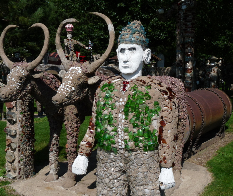 "Mr. Knox and Oxen" is a sculpture by Fred Smith, a lumberjack, and barkeeper, and self-taught artist. It stands in the Wisconsin Concrete Park in Phillips Wisconsin, among many of Fred's other creations.